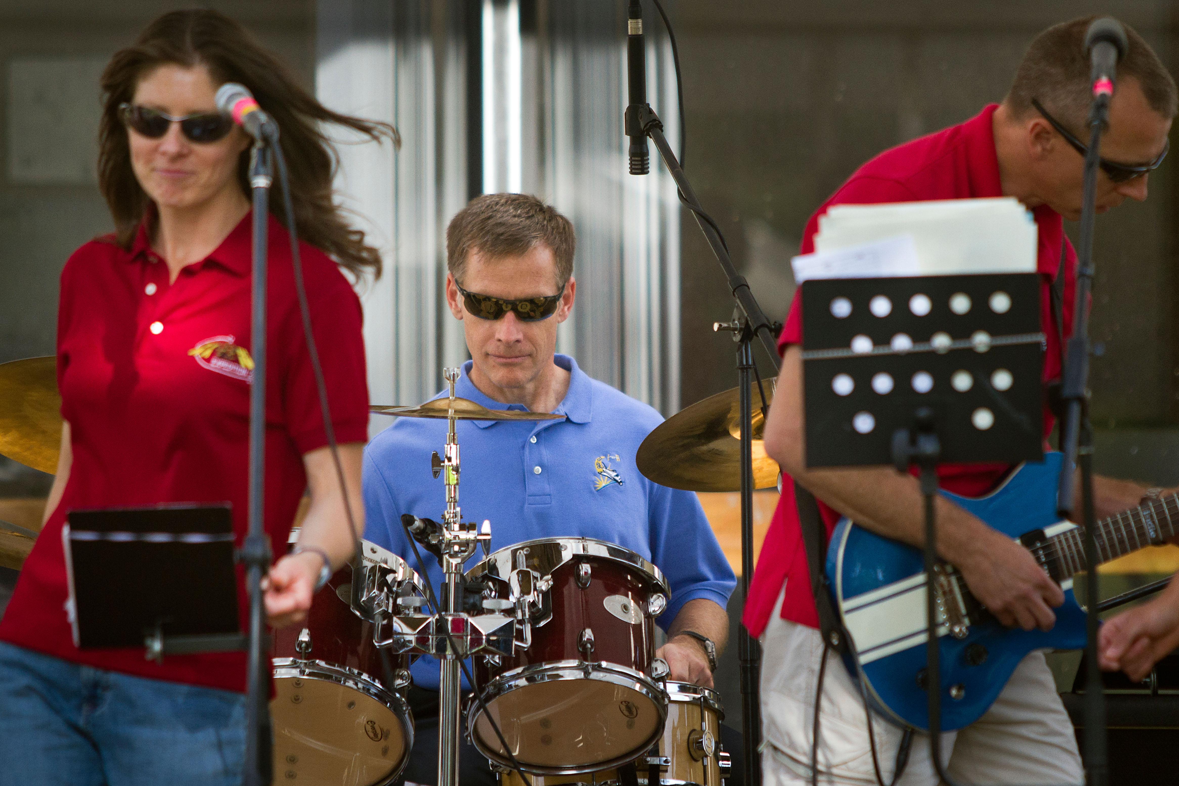 NASA astronaut Chris Ferguson, STS-135 commander, plays the drums with the all-astronaut band known as Max Q as the group performs on Innovation Day at NASA's Johnson Space Center in Houston May 4, 2011. Vocalist Tracy Caldwell Dyson is at left. Guitarist Drew Feustel is at right.